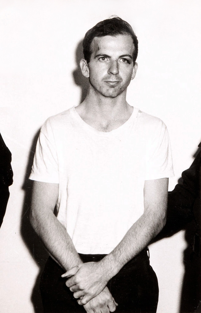 Alternate mugshot of Lee Harvey Oswald